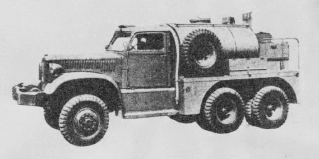 Diamond T 4-ton 6x6 asphalt distributor